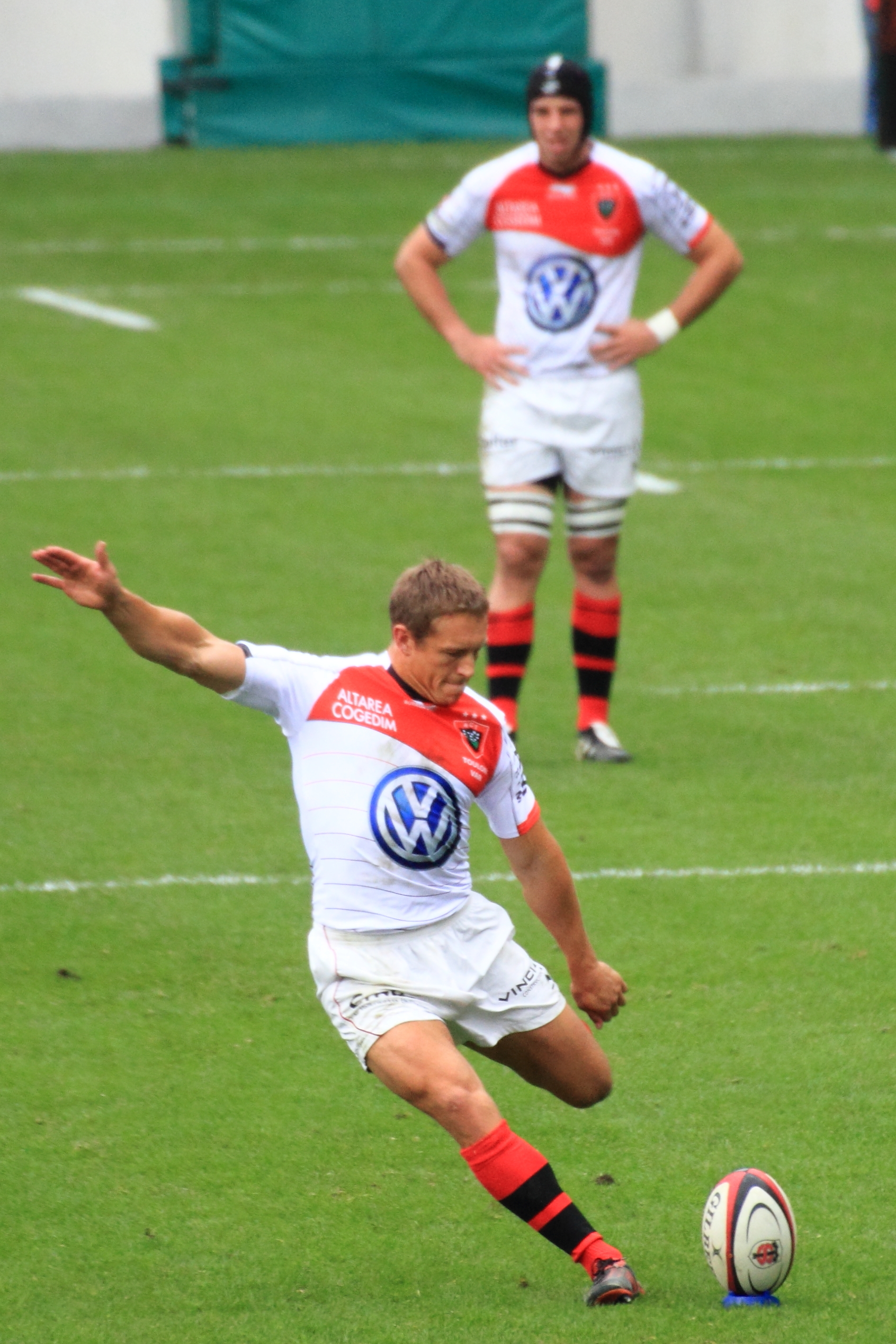 Top 14 — 3 December 2011, Stadium. Match between: Stade toulousain — RC Toulon